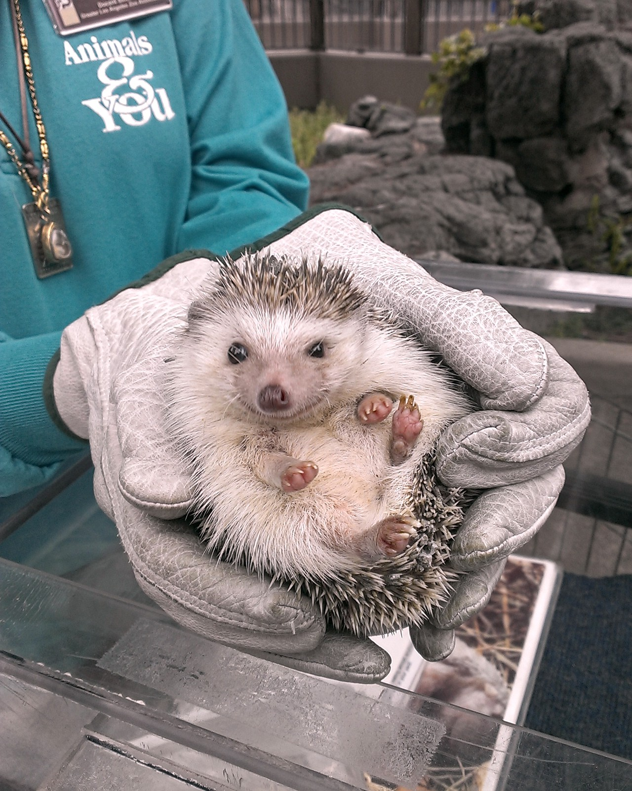 Daphne the African desert hedgehog being shown as part of the Animals & You program at the Los Angeles Zoo.